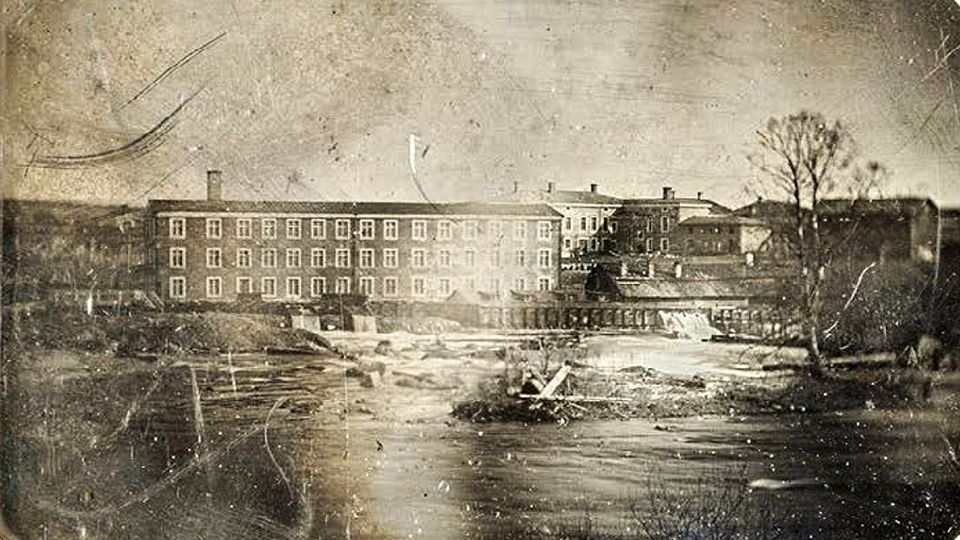 Fenckell Paper Mills, in Tampere Finland, Daguerrotype 1847 by Fredrik Rehnström